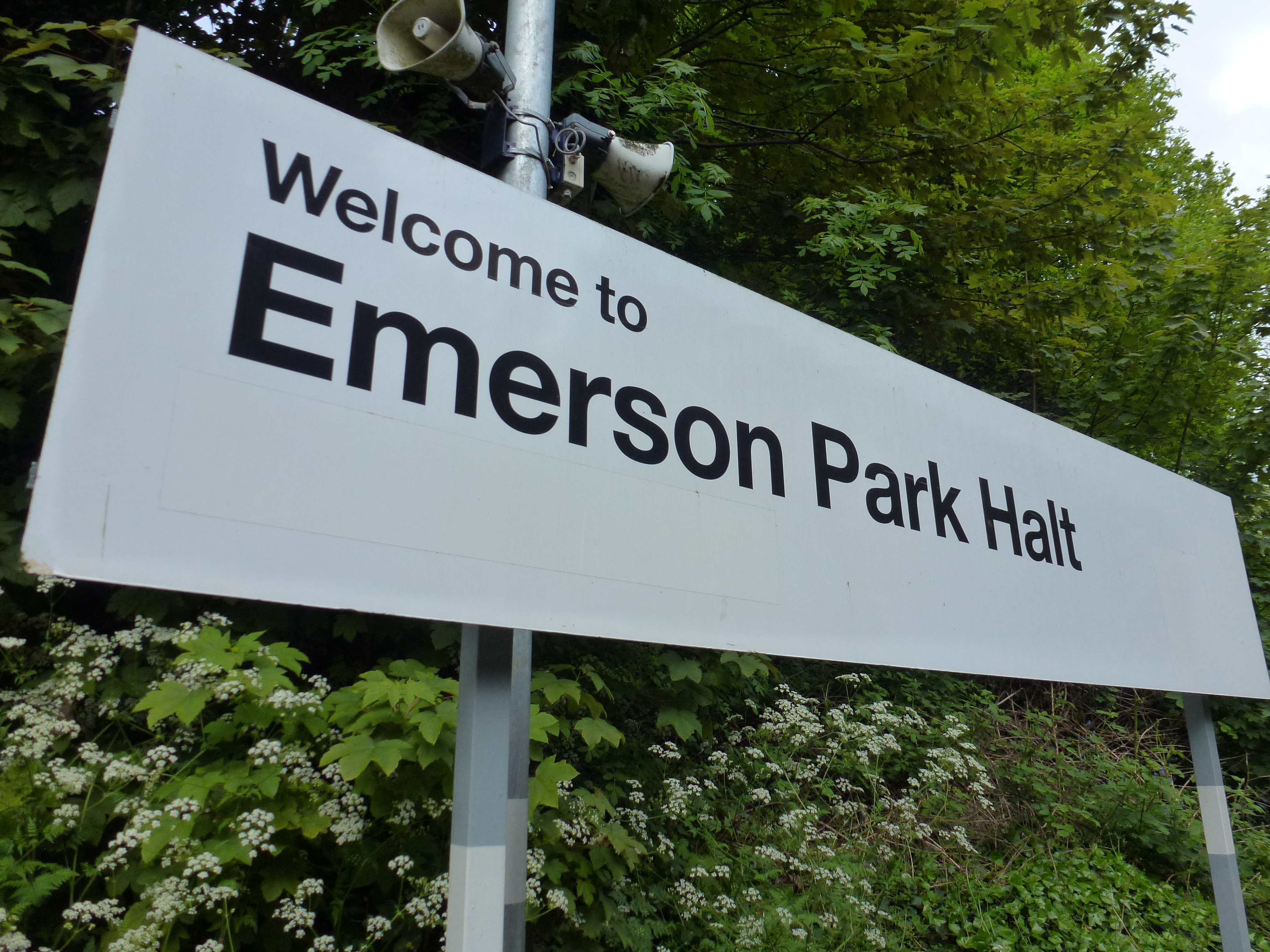 Current signage (2014), due to be replaced in 2015, when London Overground takes over. Halt was added by National Express